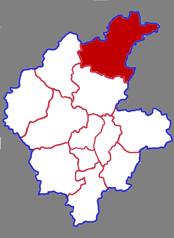 Location of Yishui county in Linyi City, China